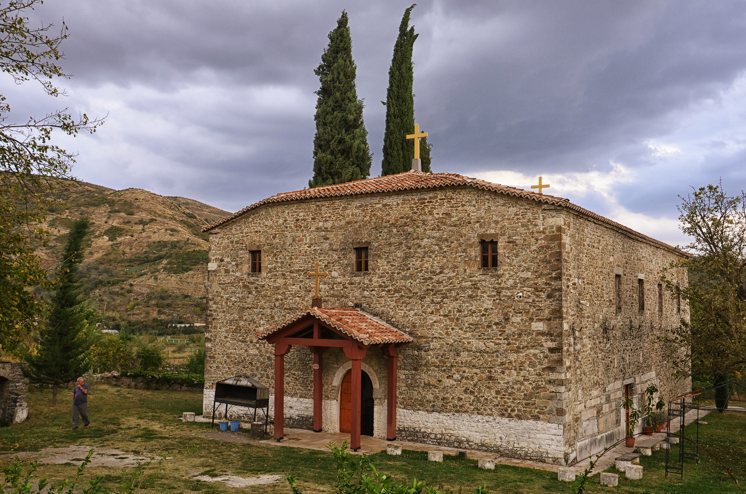 The St Jovan Vladimir's Churh in Shijon, Elbasan, Albania